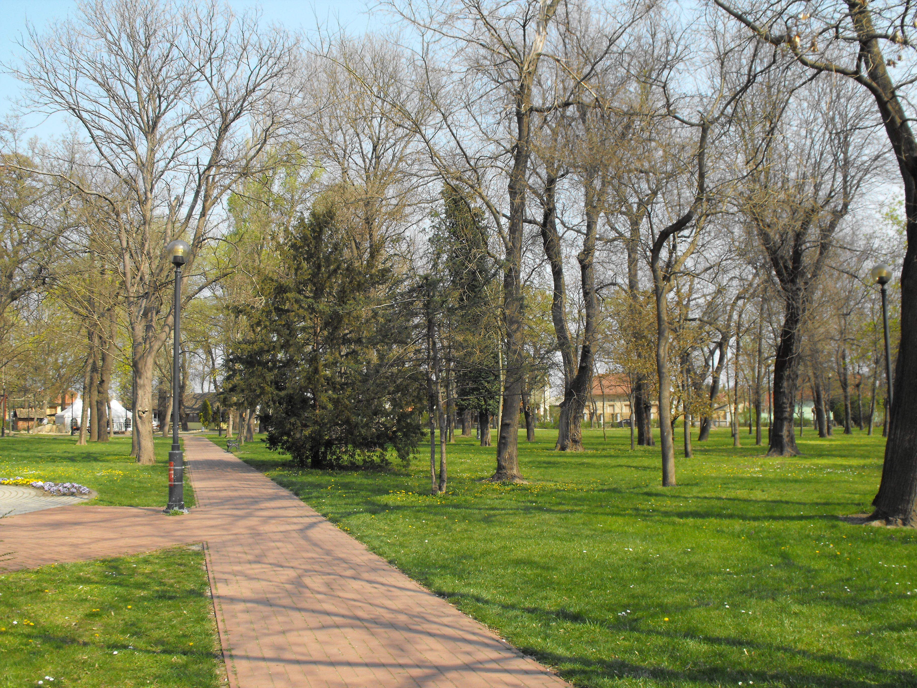 Petőfi park in Makó, Hungary.